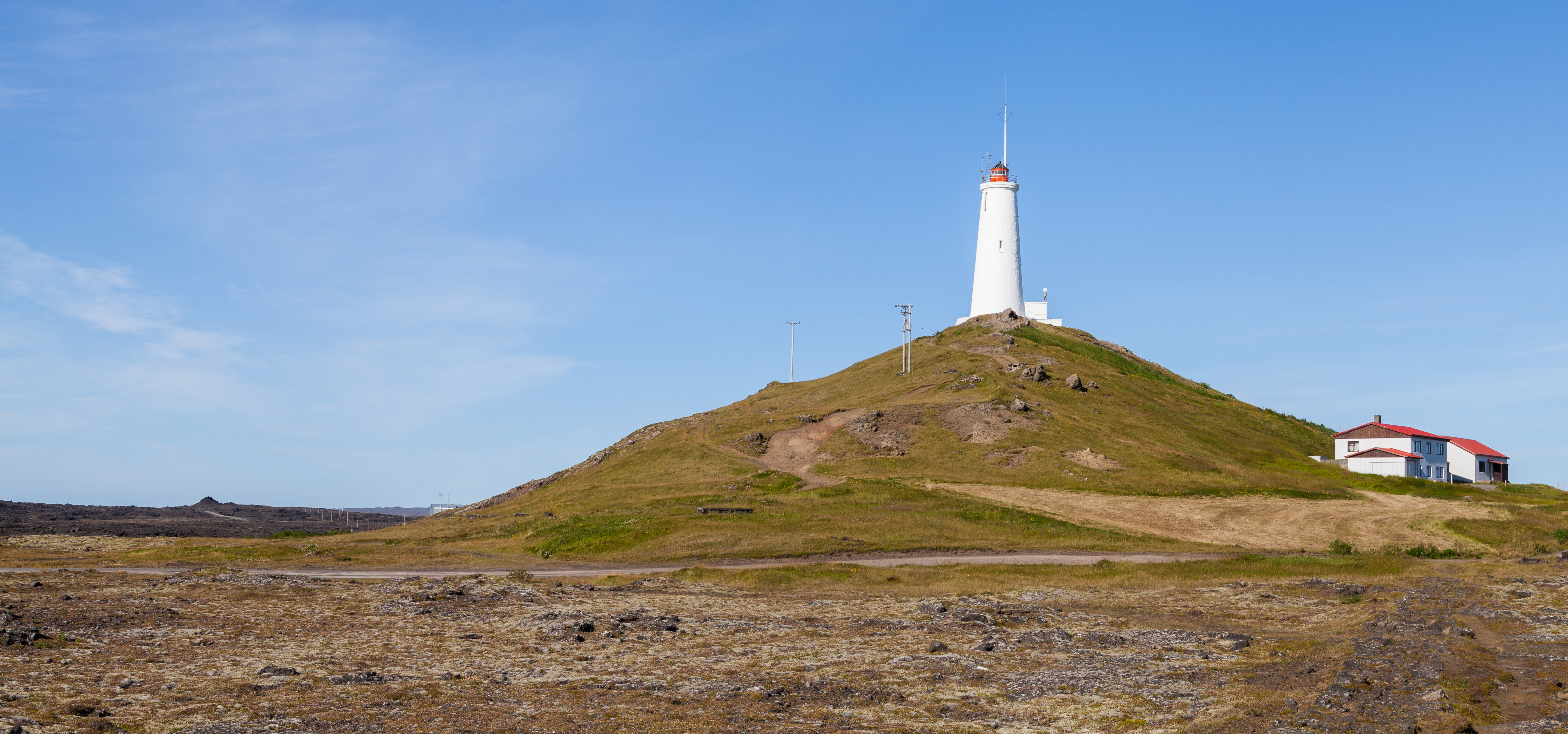 Valahnúkur lighthouse, Suðurnes, Iceland